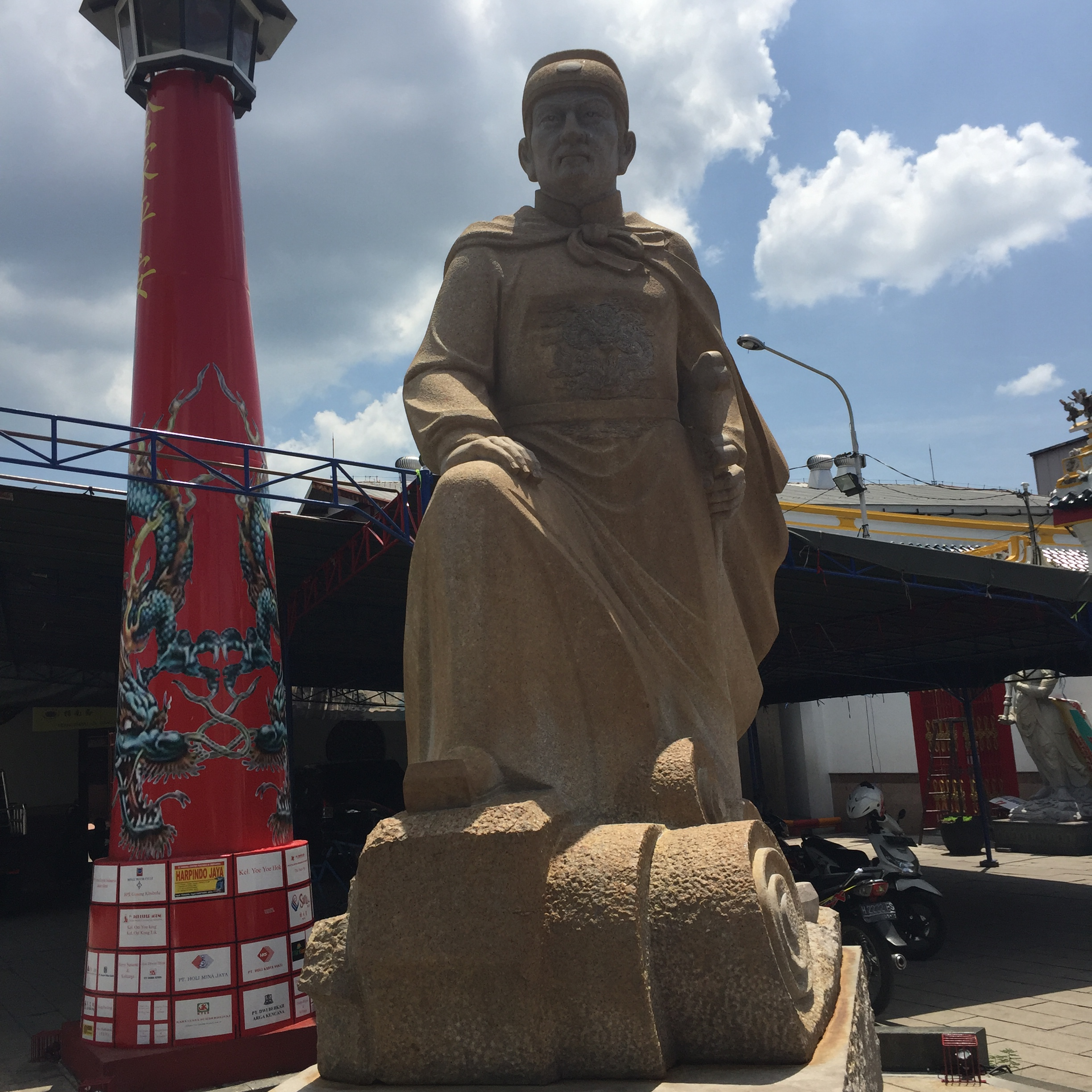 A statue of Admiral Cheng Ho that located in the front of Kelenteng Kay Tak Sie in Semarang.